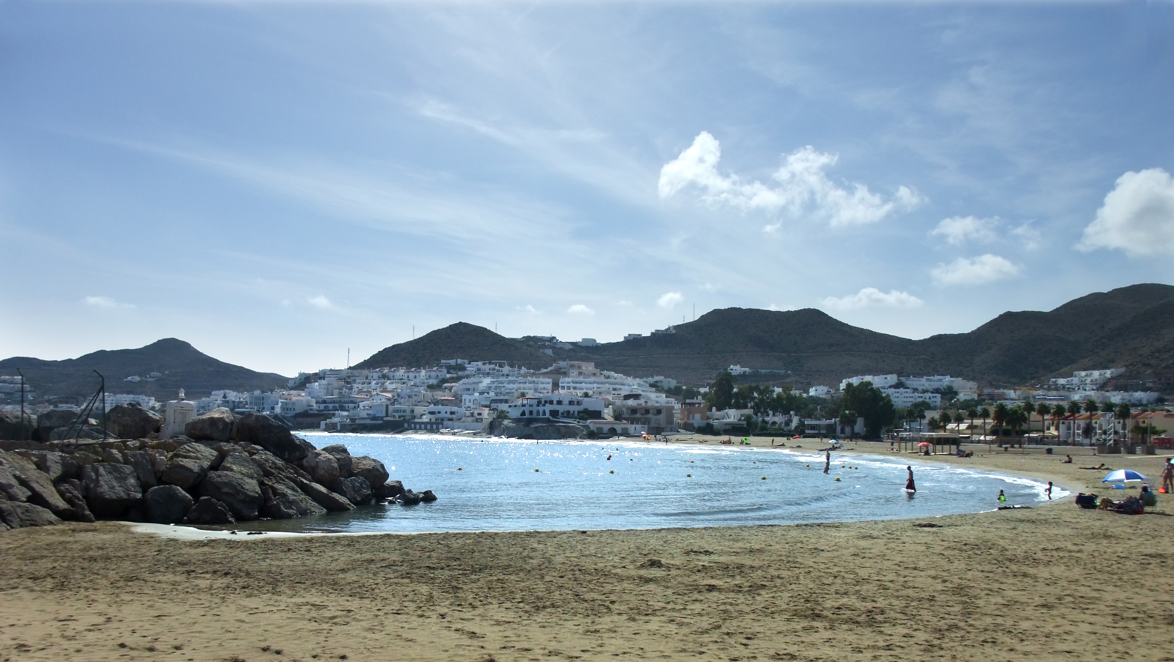 Panorama of San José, Province of Almeria in Spain